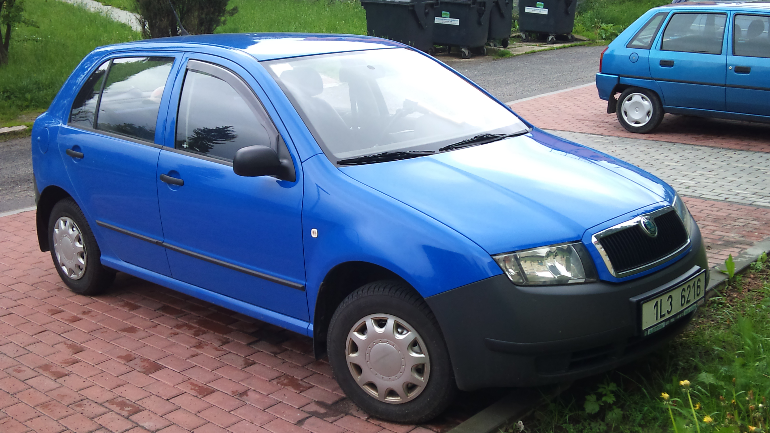 Shows the first version of Skoda Fabia I